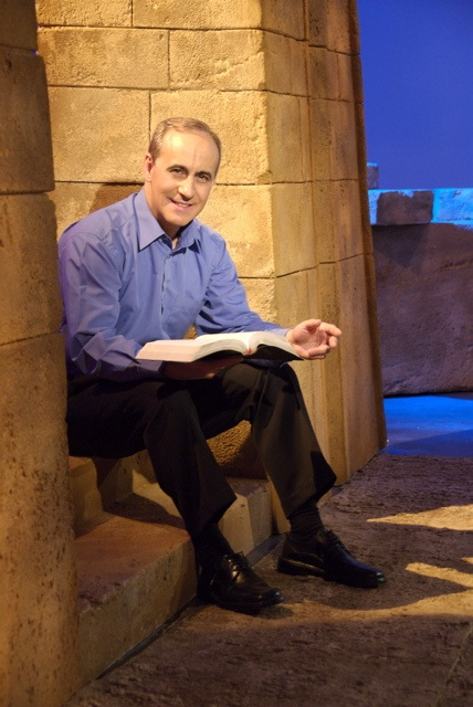 El pastor Robert Costa es el Director/Orador de Está Escrito. Pastor Robert Costa is the Director/Speaker of Está Escrito (It Is Written for Spanish speakers). Photo taken 2007